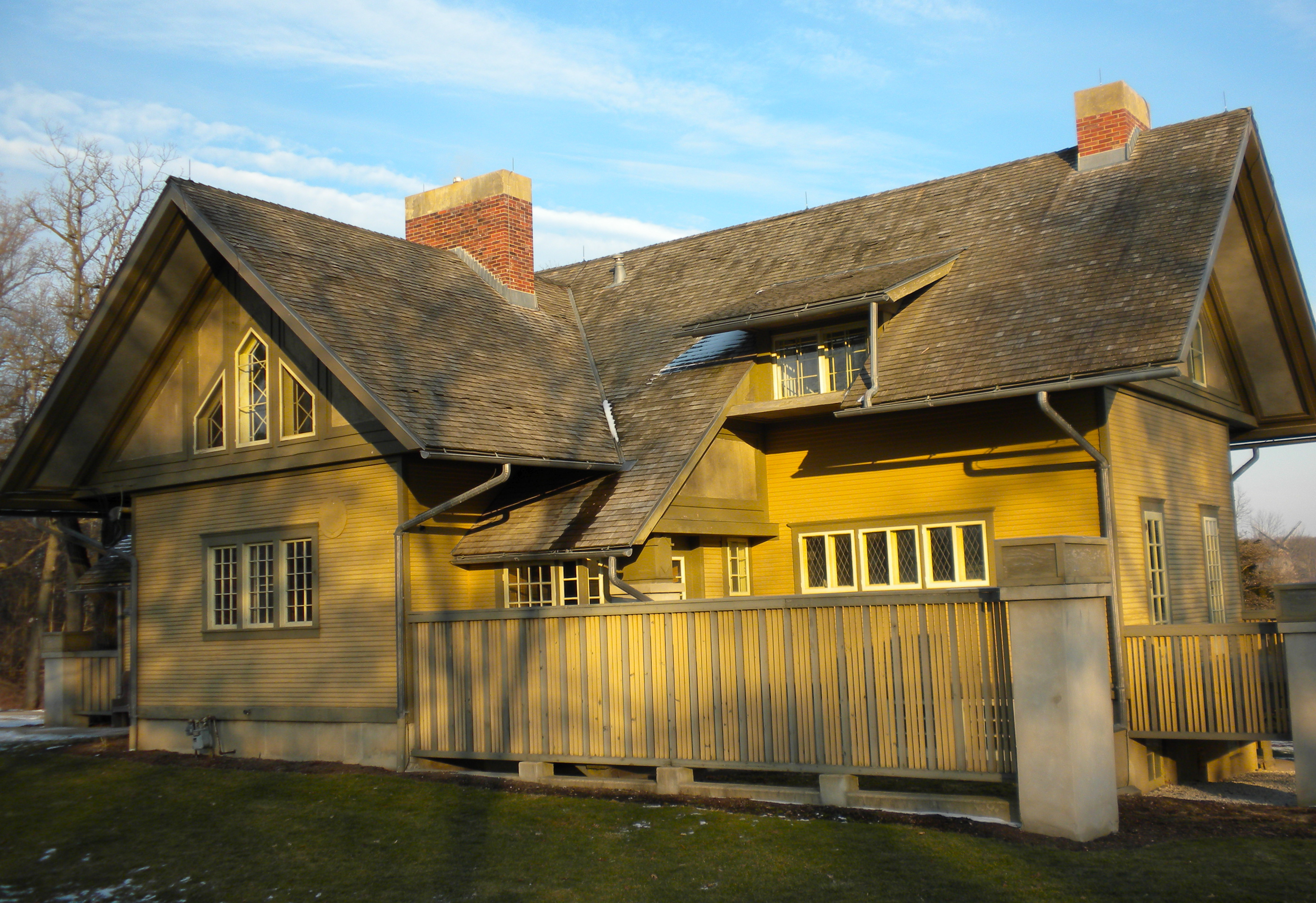 Fabyan Villa in Geneva, Illinois in a park at 1511 S. Batavia Ave. On the NRHP since February 9, 1984. House rebuilt by Frank Lloyd Wright in 1907. Across the Street from the Riverbank Labs, which is associated with the same family and is also on the NRHP. In the same park, but across the Fox River is a famous windmill, moved there by the family.